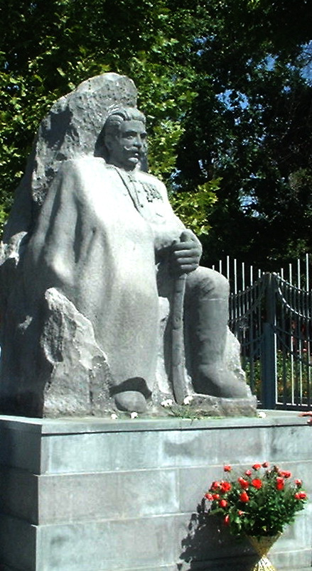 General Andranik Ozanian